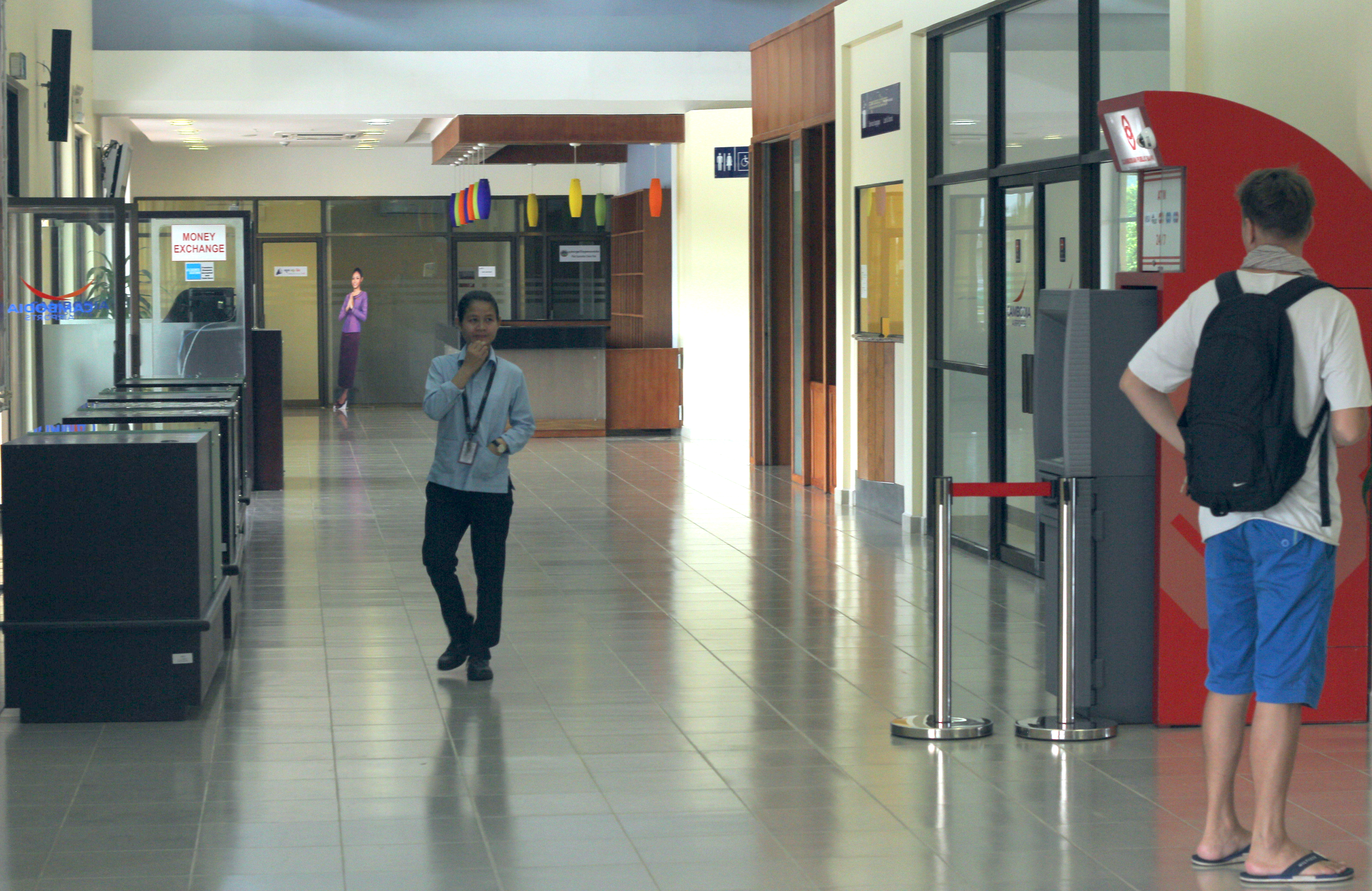 Sihanouk International Airport.